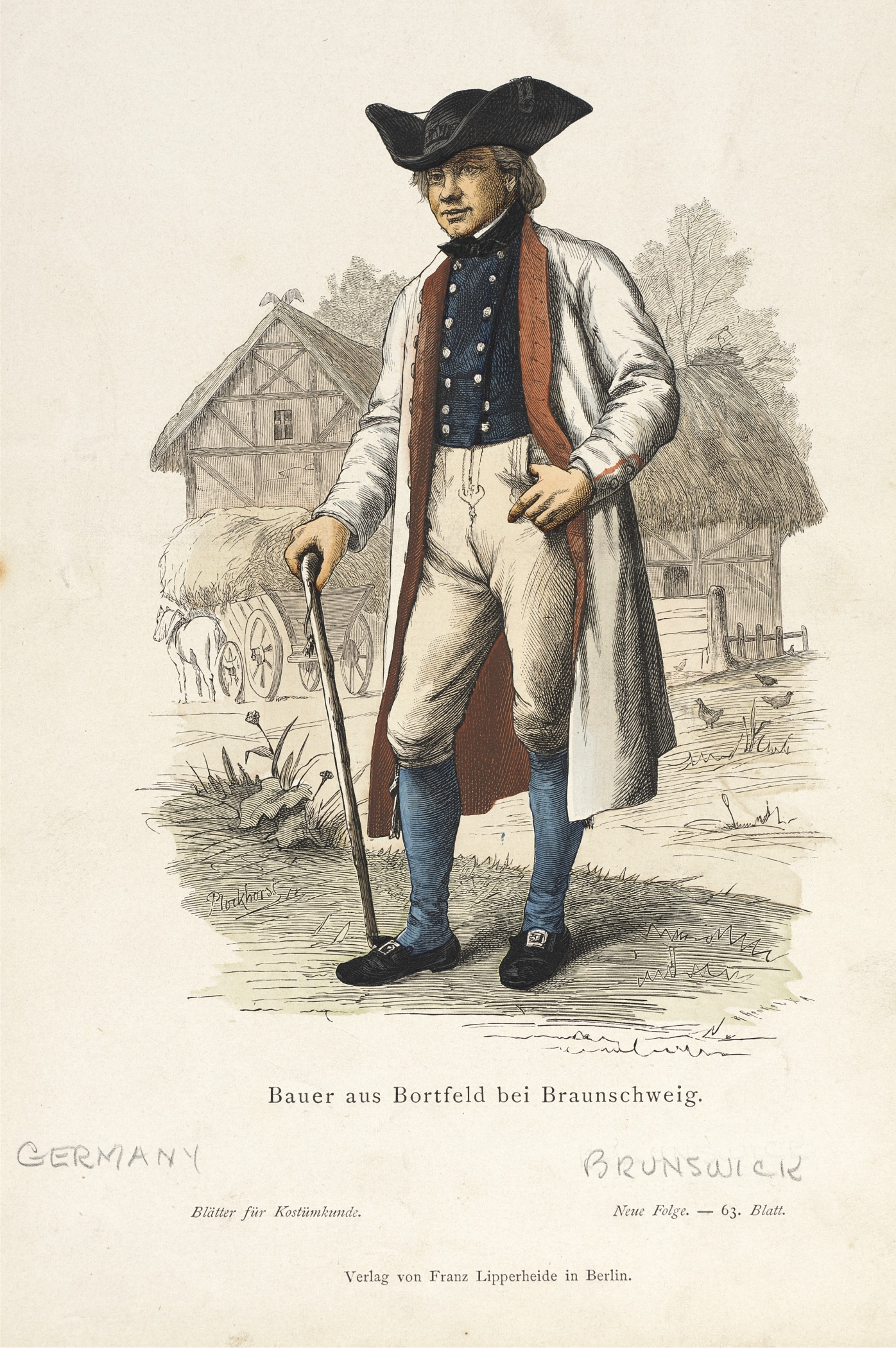 Germany, Berlin, 19th century Prints; lithographs Lithograph on paper Composition: 11 7/8 x 7 3/8 in. (30.16 x 18.73 cm) Gift of Charles LeMaire (M.83.161.101) Costume and Textiles